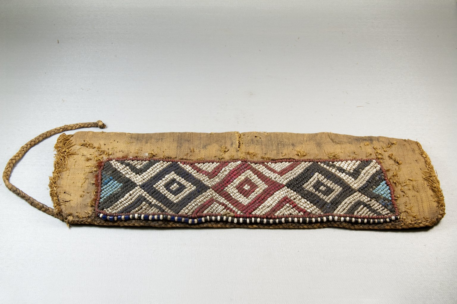 Plain weave raffia cloth strip with beadwork in geometric pattern. Bead colors: white, dark blue, and red. Cloth: Natural. CONDITION: Fair. Very worn. Torn in center, stained.